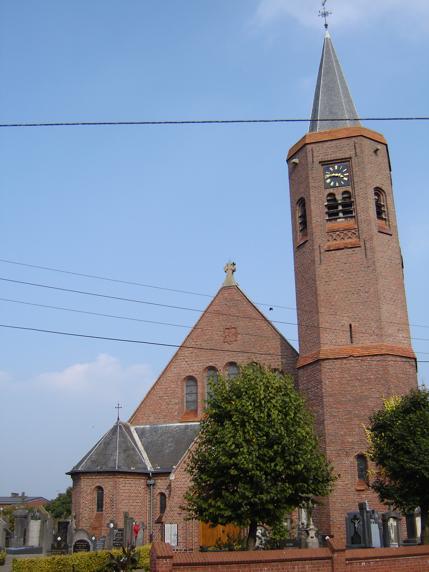 Church of Our Lady in Brielen. Brielen, Ieper, West Flanders, Belgium